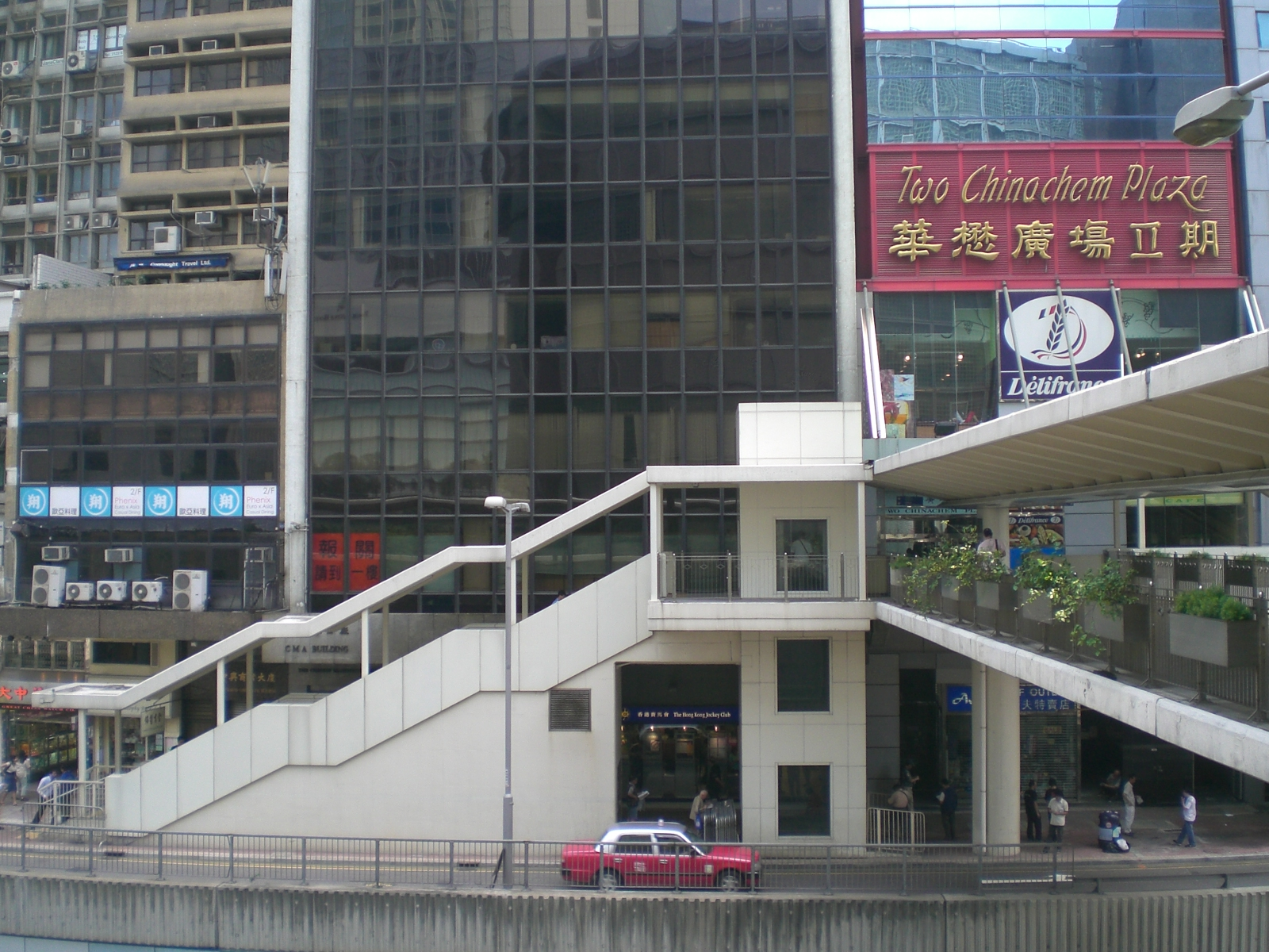 中區行人天橋系統 干諾道中 中西區 中環 Photographer is User:SeaLai Ho